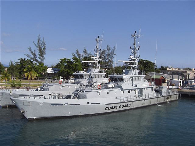 Coast Guard subject matter experts, representing acquisition, requirements and engineering, recently visited Jamaica to observe the Sentinel-Class's parent craft, a 42-meter Damen in action. Photos by Mark Matta